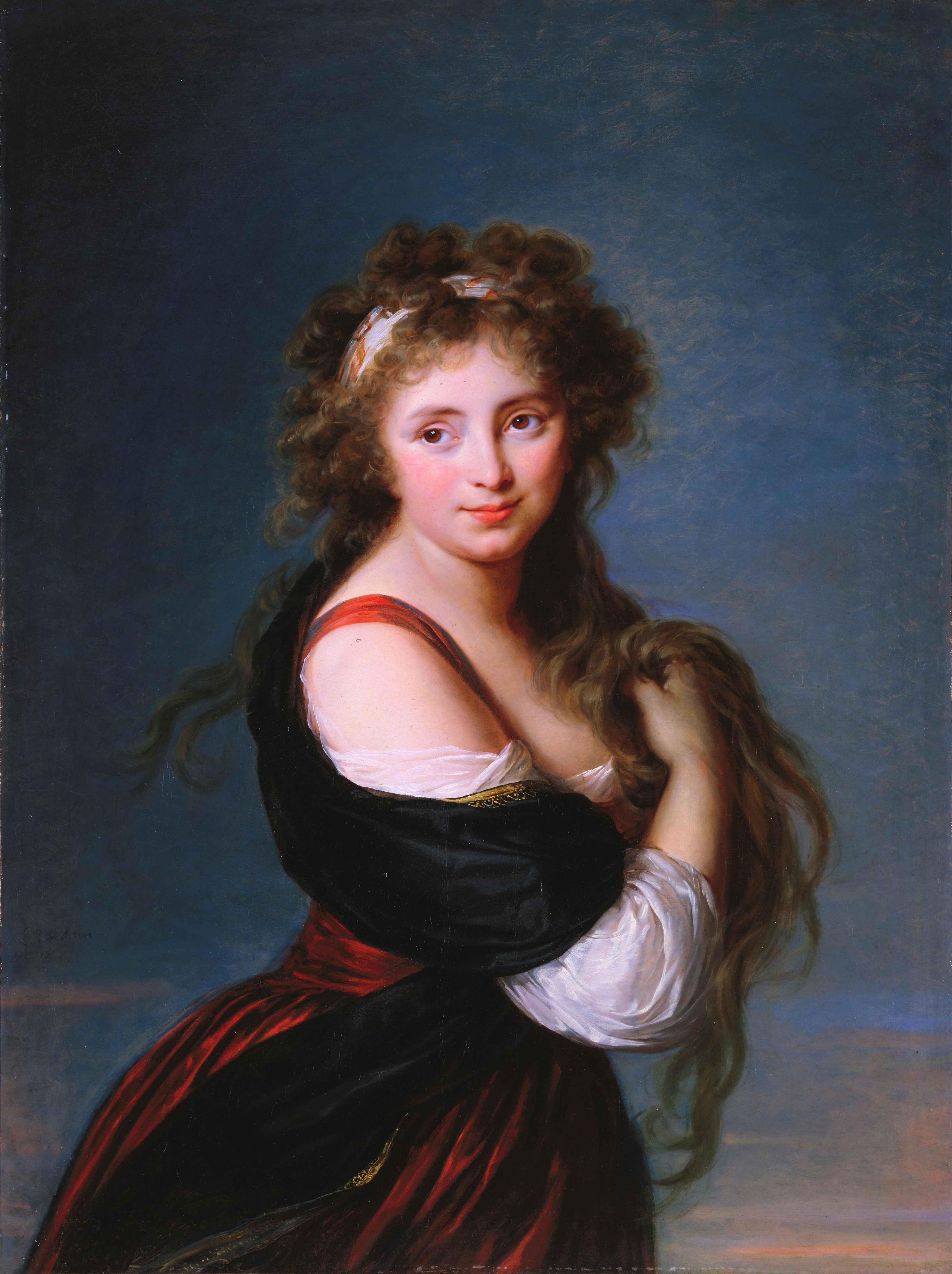 Hyacinthe Gabrielle Roland, Marchioness Wellesley, (formerly Countess of Mornington)